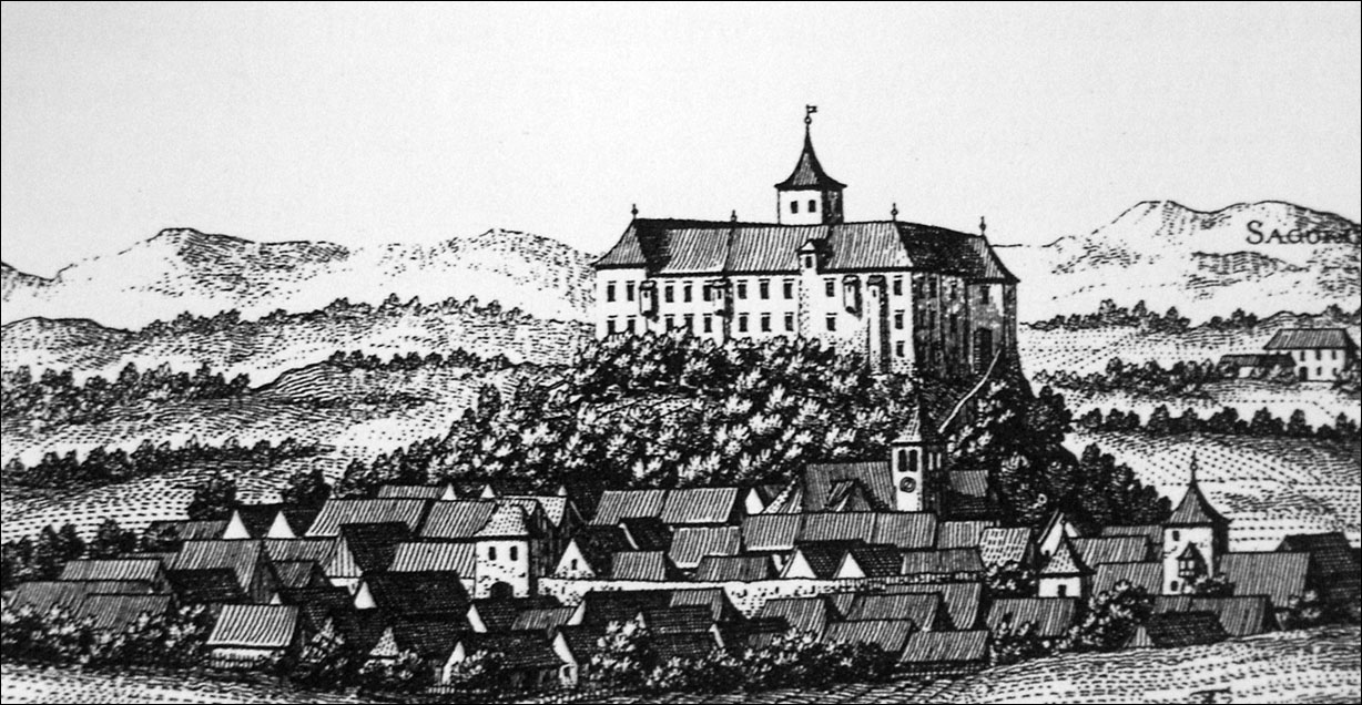 Mokronog Castle